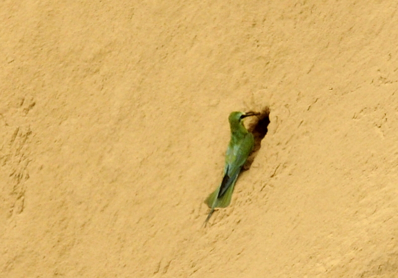 Blue-cheeked Bee-eater at nest in a desert dune bank, near Jodhpur, Rajasthan, India